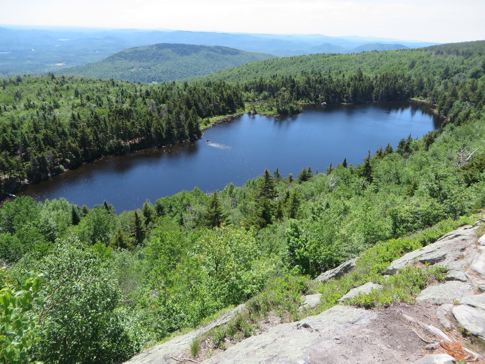 Lake Solitude, on Mount Sunapee. June 2015.